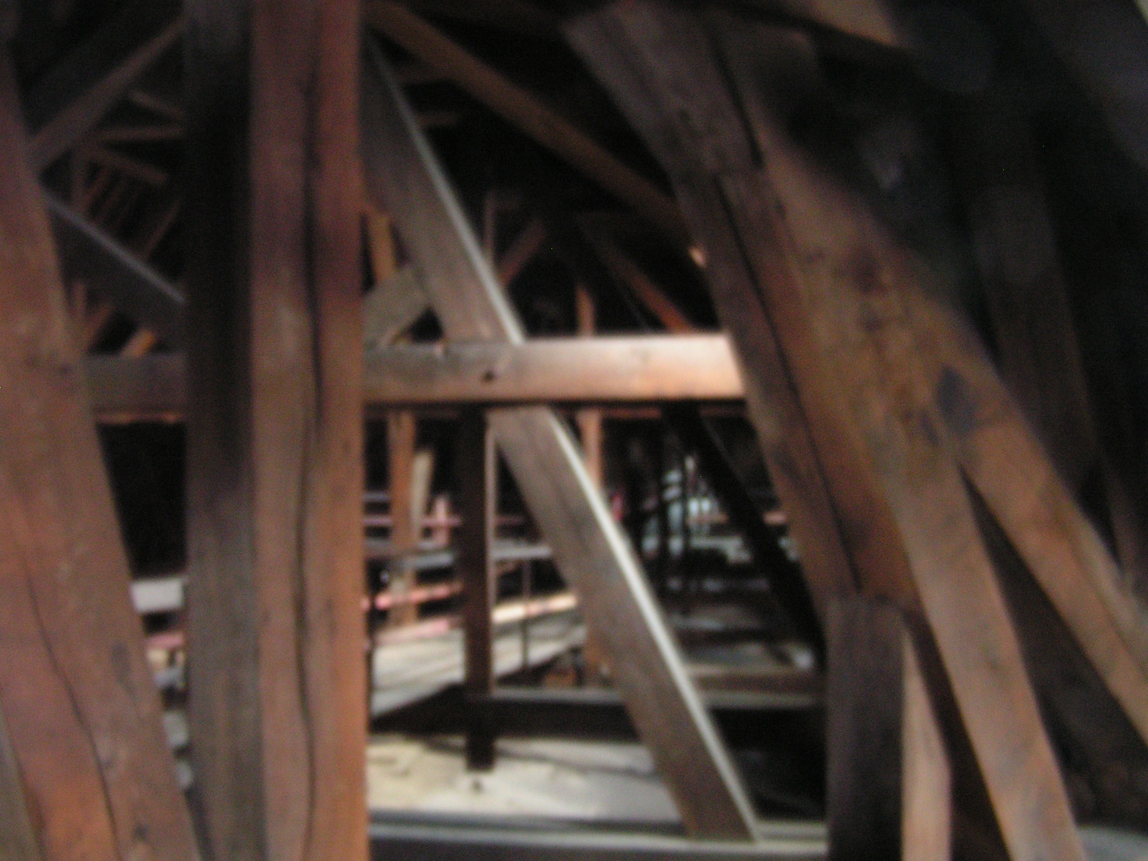 Notre Dame de Paris, Île de la Cité in Paris, France